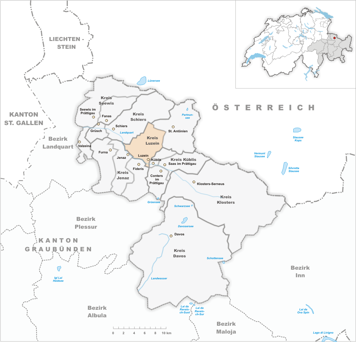 Municipality Luzein